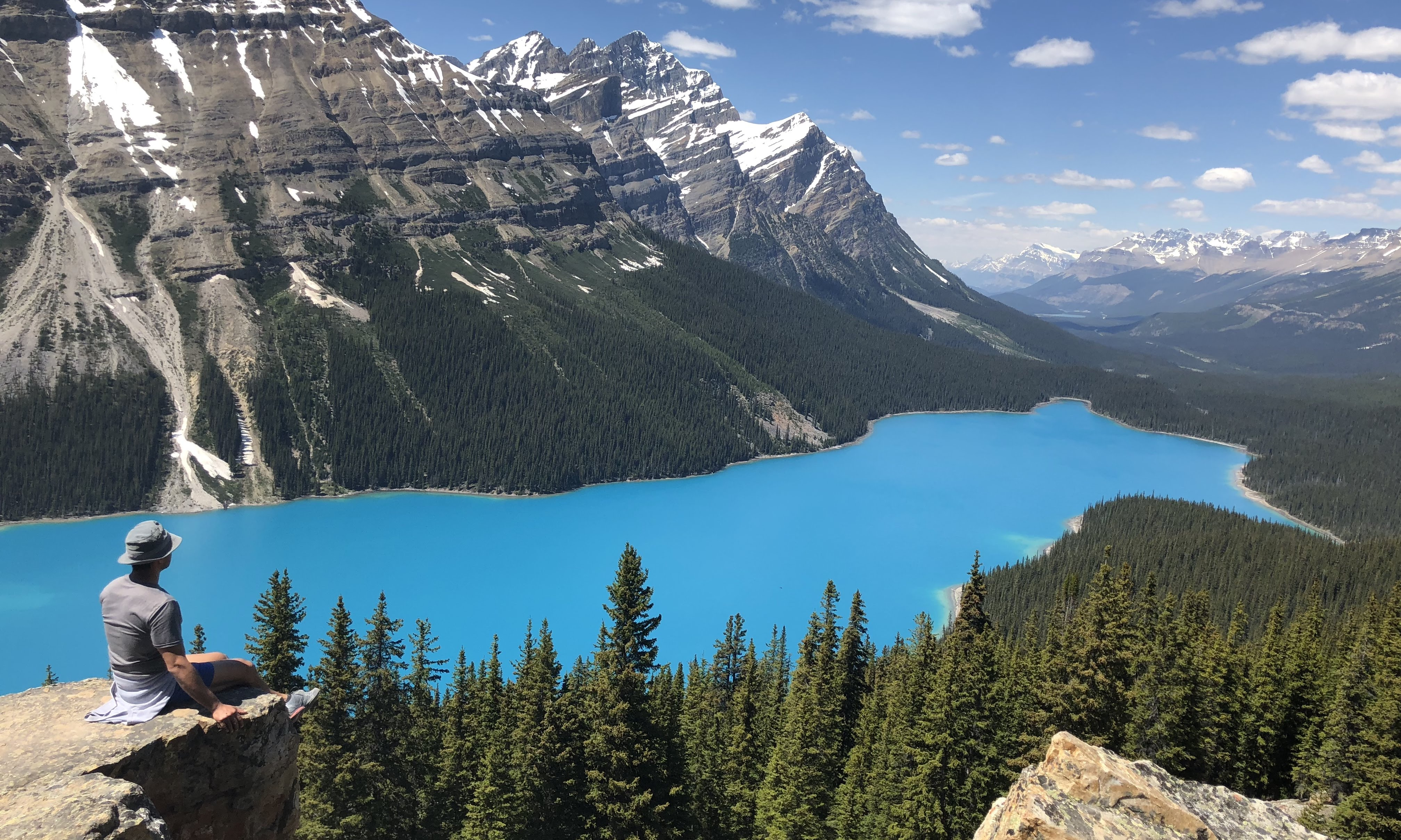 A tourist sits on a rocky out crop overlooking Peyto Lake